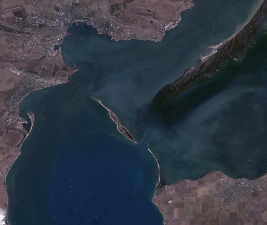 Tuzla Island, Kerch Strait, near natural colors satellite image, LandSat-5, 2011-08-30, resolution 30 m